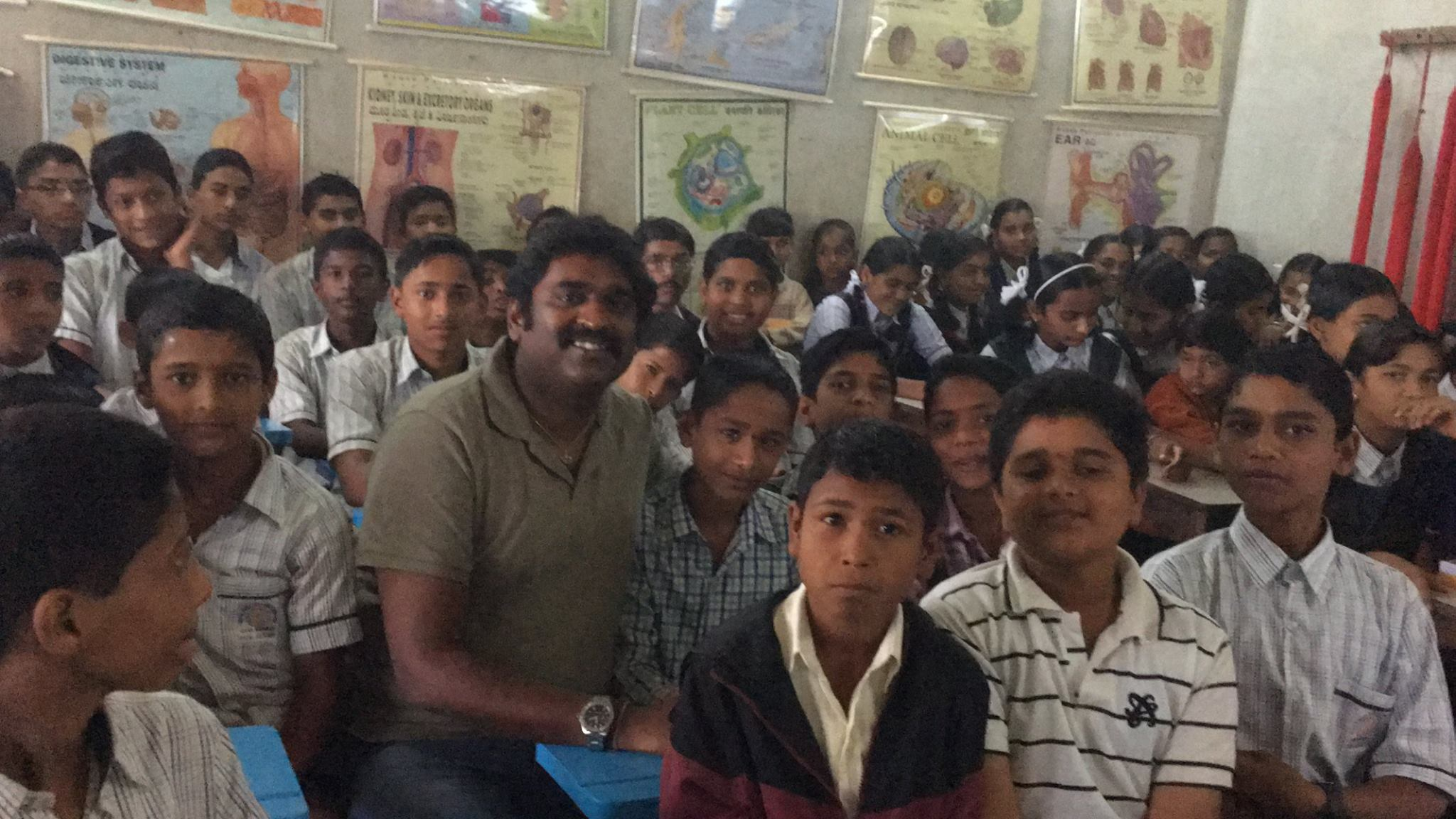 JP with school kids